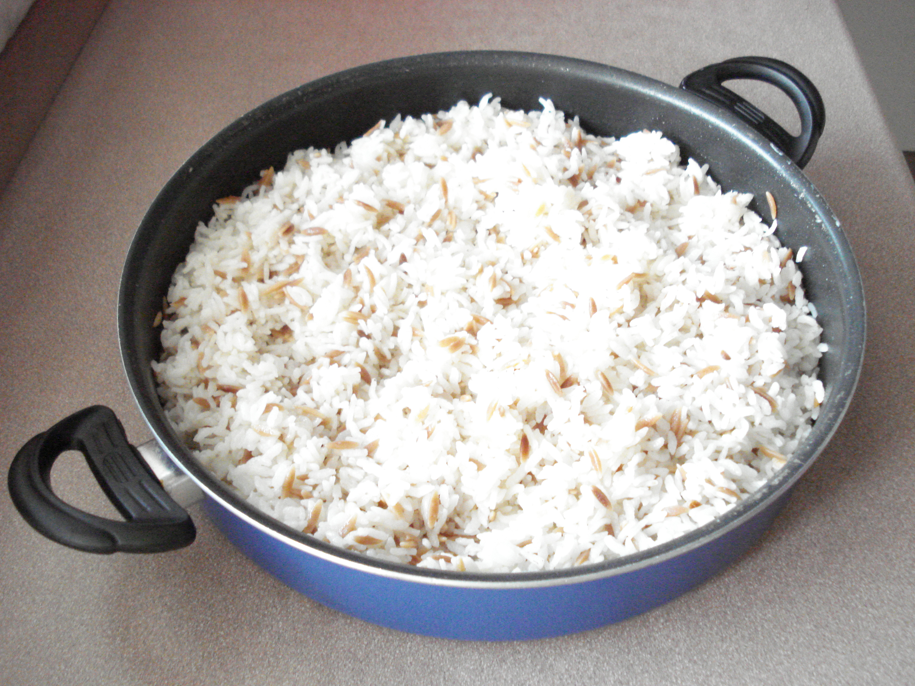 Pilav from Turkish cuisine